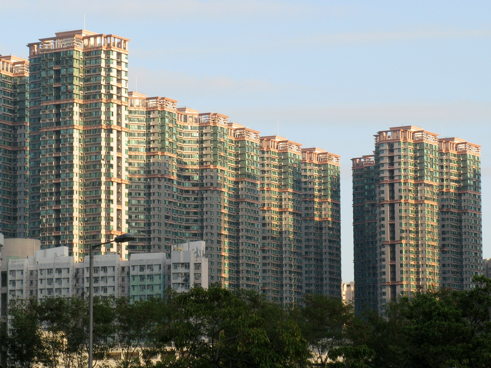 Metro City Phase 2